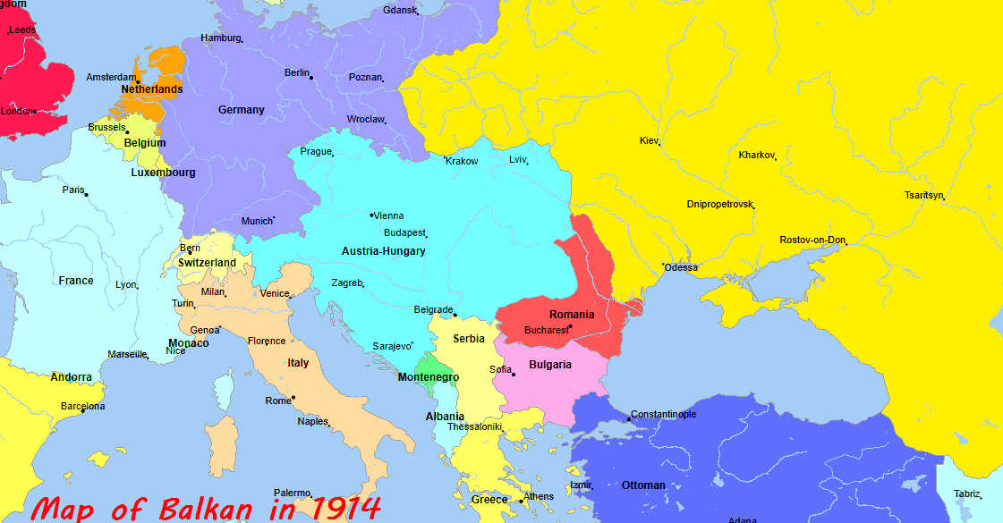 balkan prior to the WW1